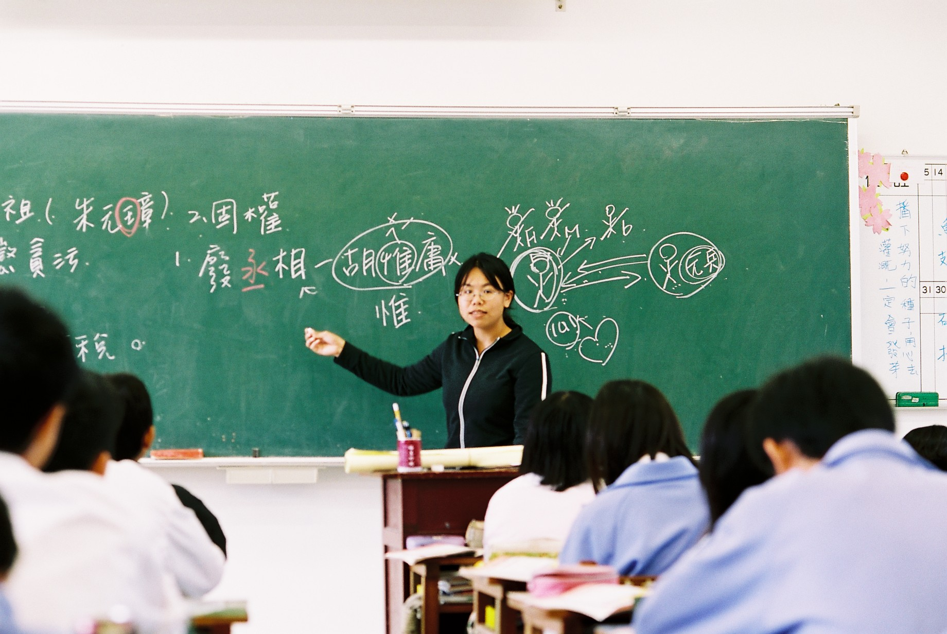 History class in Da Ji Junior High School in Chiayi County, Taiwan.